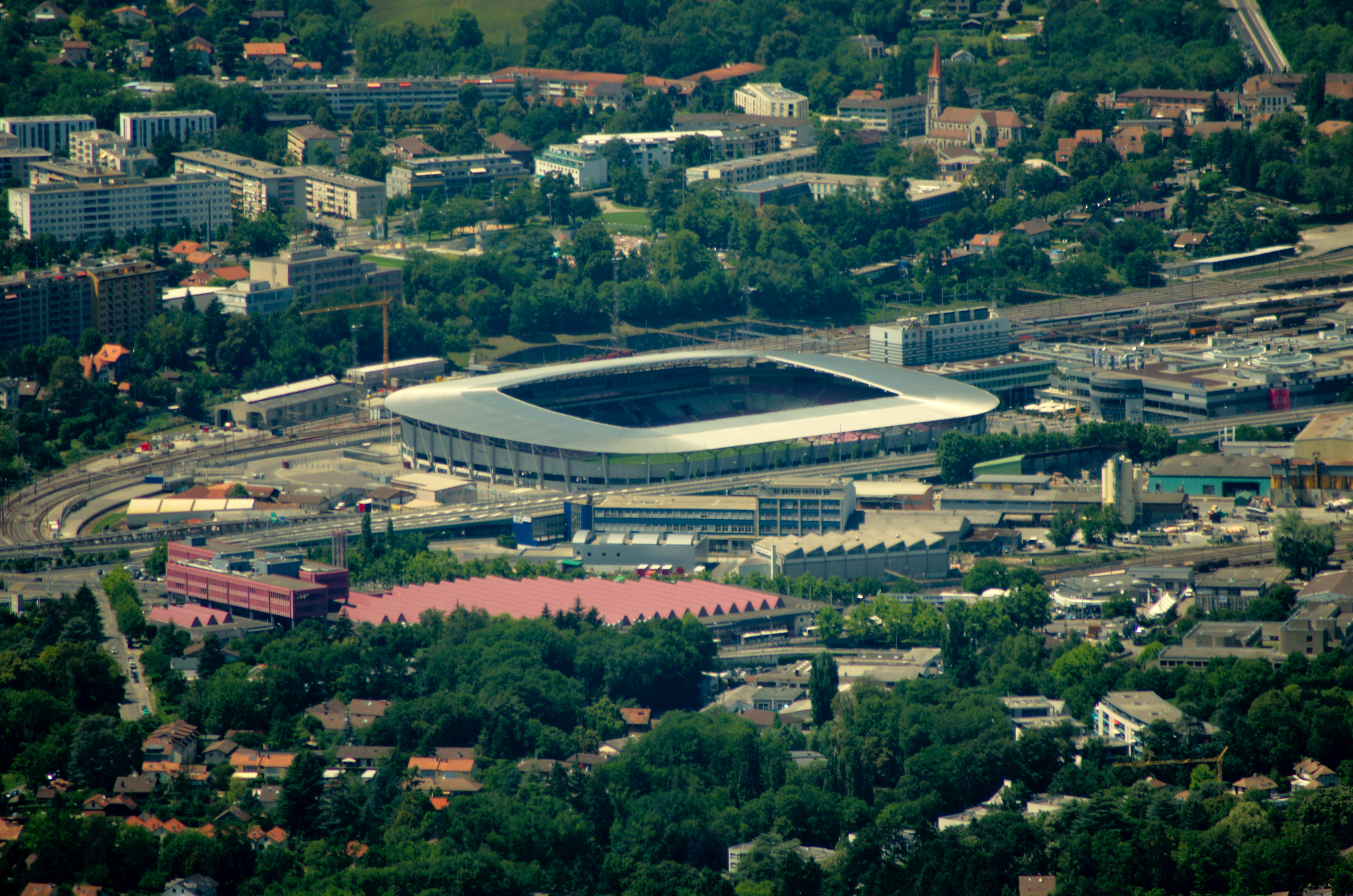 The Stade de Genève seen from the Salève mount.